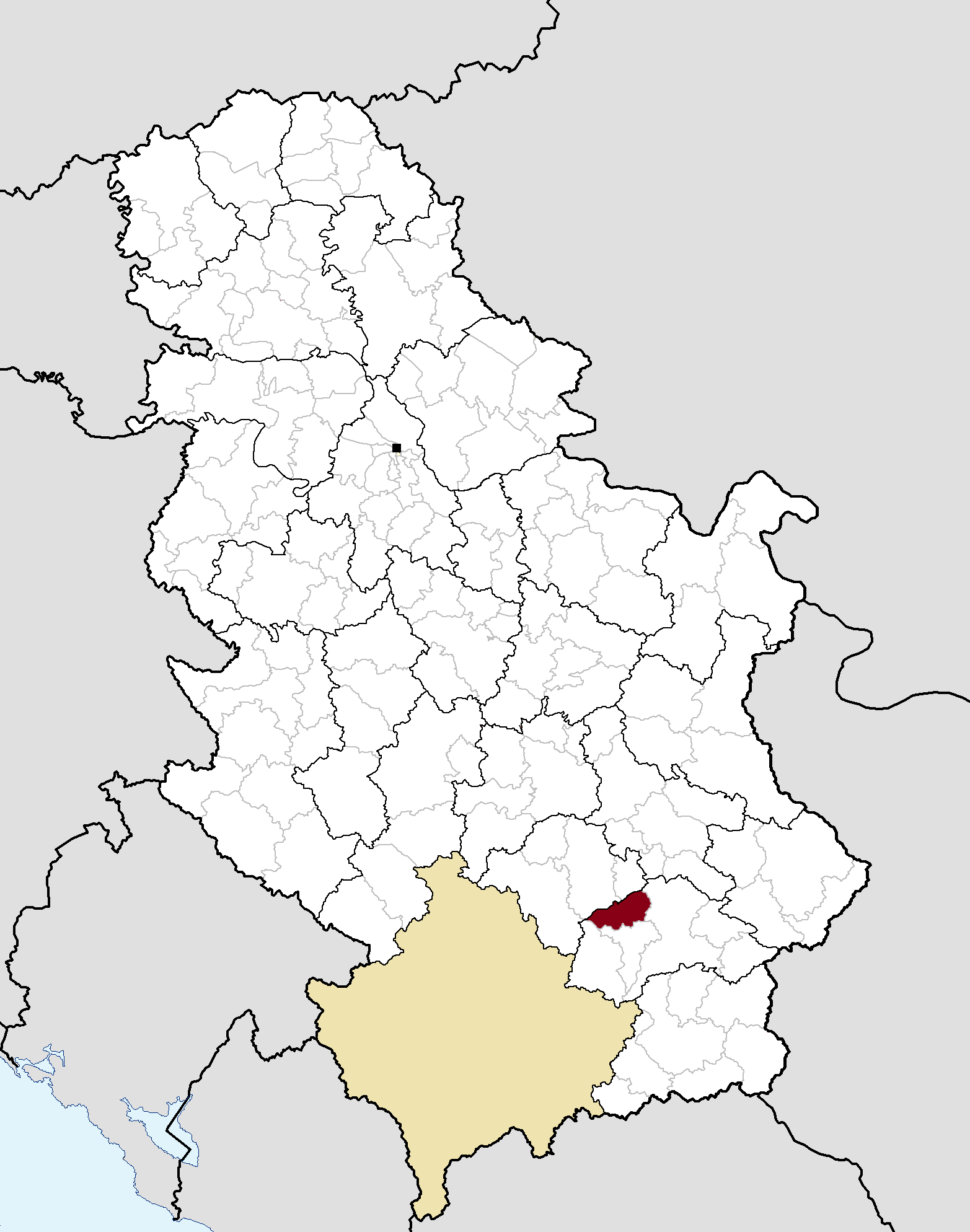 Municipal location in Serbia